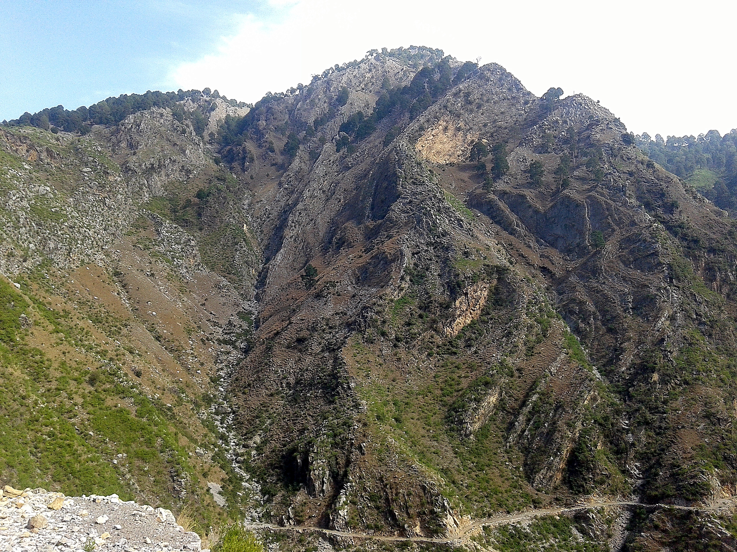 Dana mountain situated in District Haripur